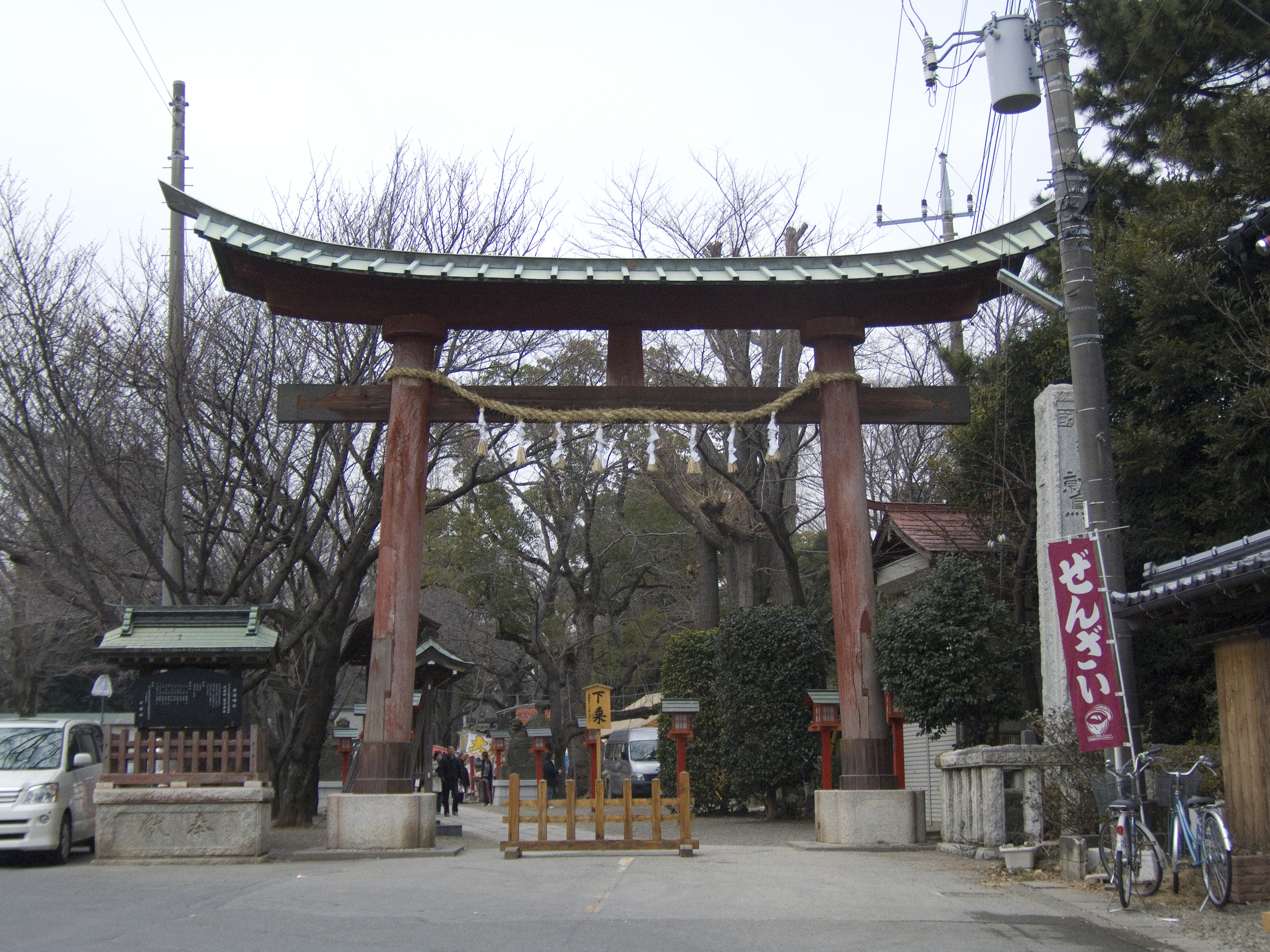 Washinomiya Shrine (Washimiya town, Kita-Katsushika District, Saitama prefecture, Japan)